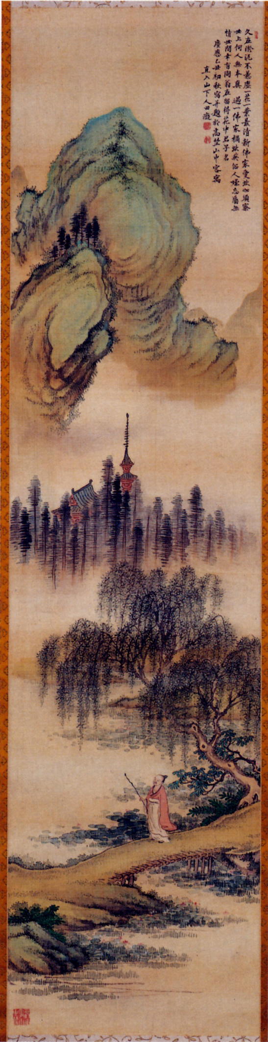 Painting of Walking along the the willow shade,Chokunyu Tanomura Work